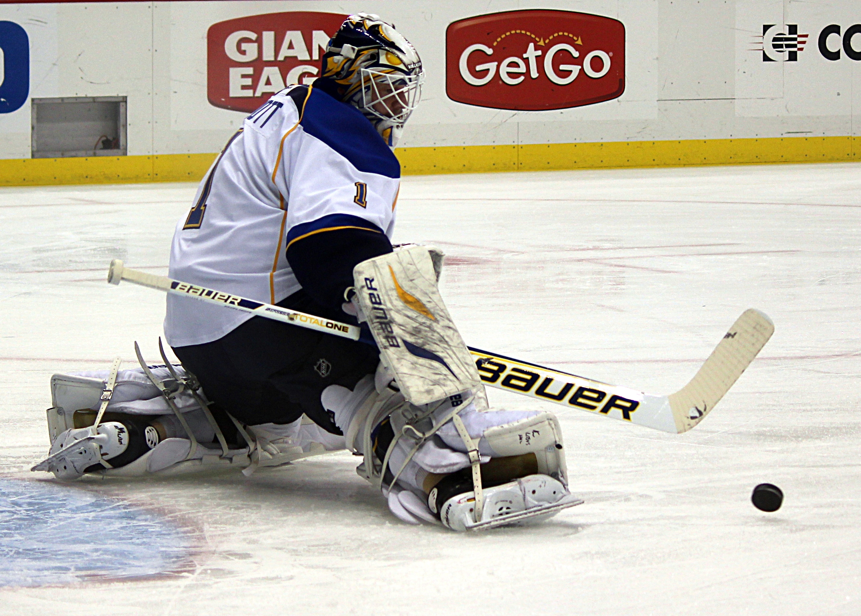 St. Louis Blues goaltender Brian Elliott during a game against the Pittsburgh Penguins, March 23, 2014, at Consol Energy Center in Pittsburgh, PA.